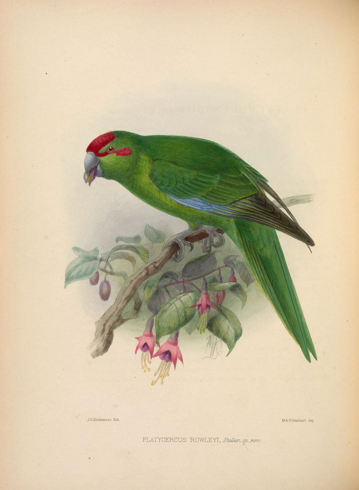 J.G,Keulem.a.Tis litL,, M.5oKHanhart imp PLATyCER_CUS ROWI.EYI, Bu/Ur. sp. n.n